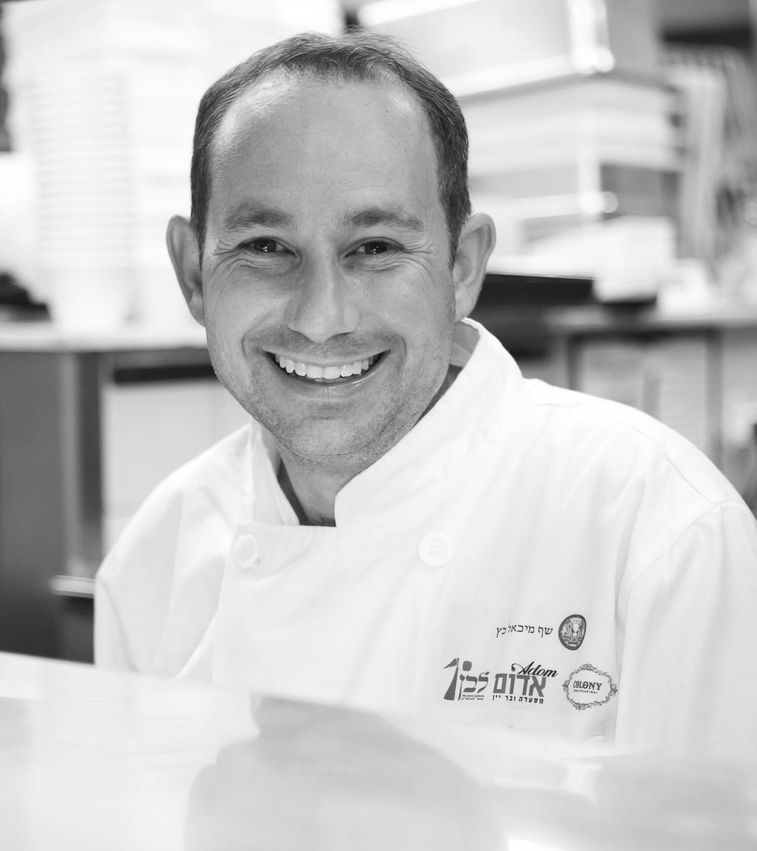 Israeli Chef Michael Katz